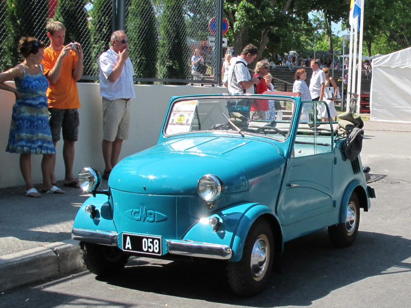 The Soviet microcar SMZ S-3A in Pärnu